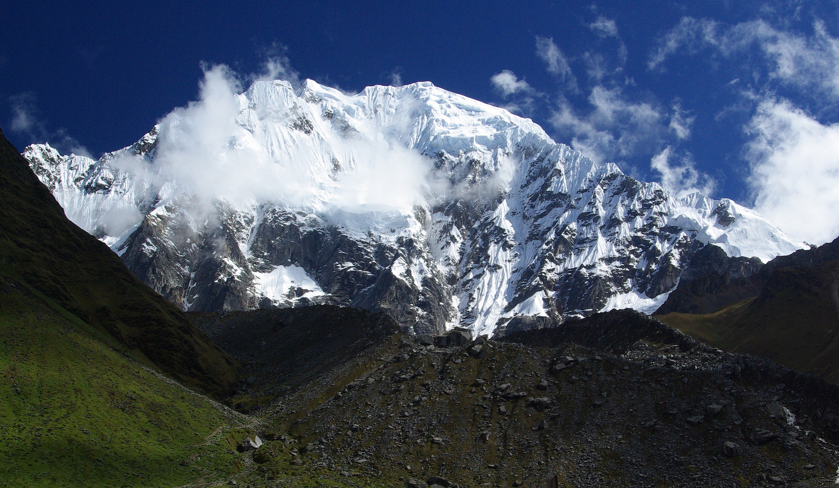 View of Salcantay (mountain near Cuzco, Peru), from the southwest.